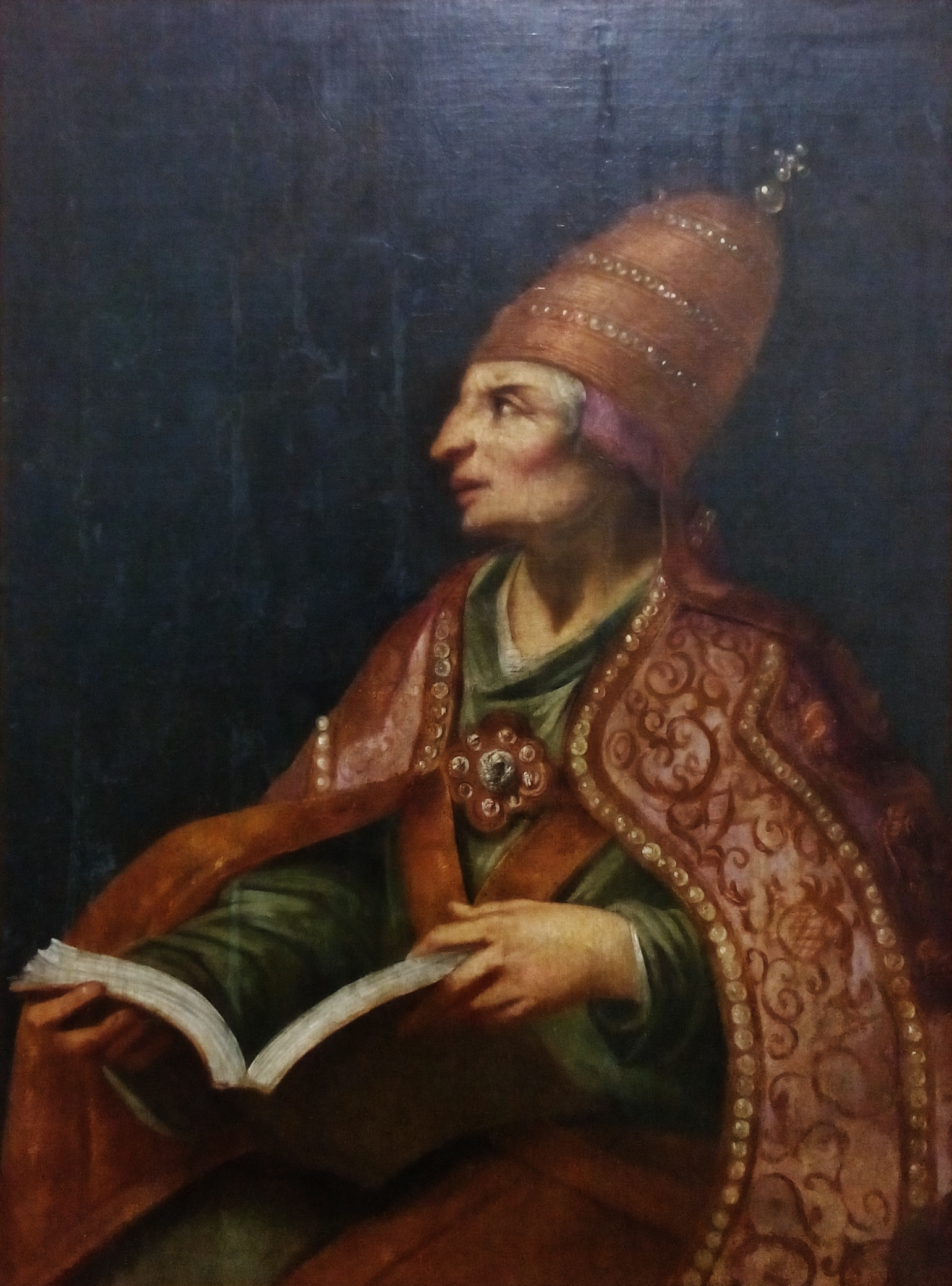 Pope Gregory X, by unknown author. Currently in the Museum of Health, Lisbon, Portugal.